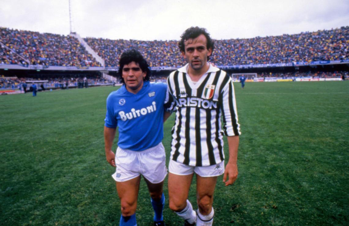 Diego Maradona (left) and Michel Platini while playing for Napoli and Juventus, respectively.